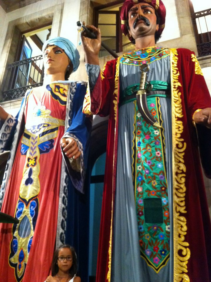 Giant couple. Vilanova i la Geltrú.